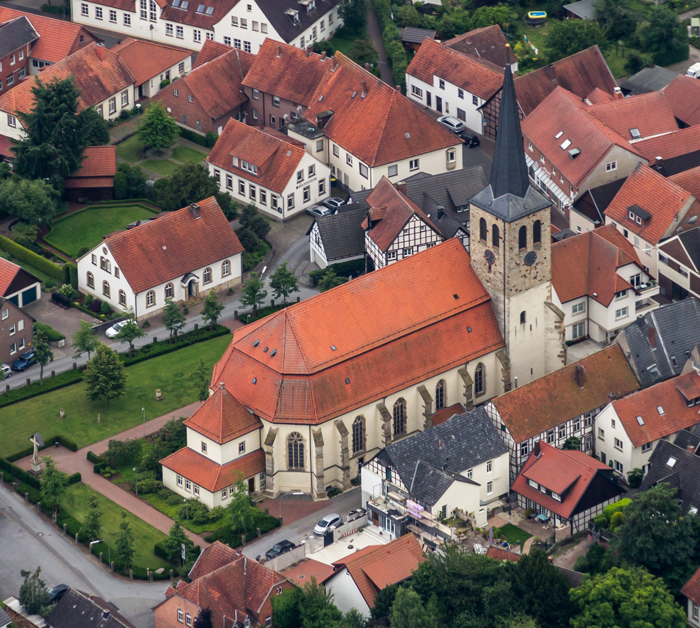 Church, Glandorf, Lower Saxony, Germany